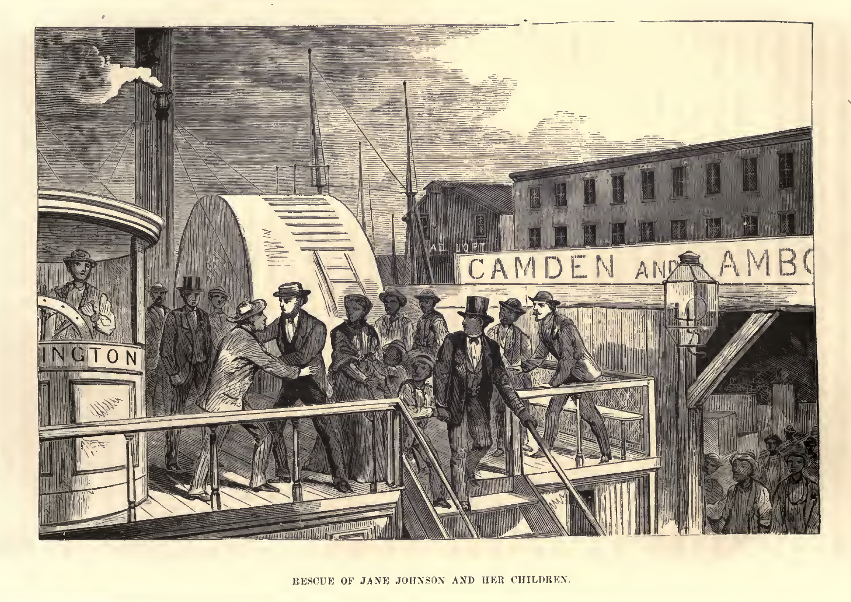 Jane Johnson emancipates herself and her children by walking away from her former "master", John Hill Wheeler, into the free city of Philadelphia, Pennsylvania. 18 July 1855. From William Still's 1872 book The Underground Railroad. Still recounts his statement to Johnson: "You are entitled to your freedom according to the laws of Pennsylvania, having been brought into the State by your owner. If you prefer freedom to slavery, as we suppose everybody does, you have the chance to accept it now. Act calmly—don't be frightened by your master—you are as much entitled to your freedom as we are, or as he is—be determined and you need have no fears but that you will be protected by the law. Judges have time and again decided cases in this city and State similar to yours in favor of freedom! Of course, if you want to remain a slave with your master, we cannot force you to leave; we only want to make you sensible of your rights. Remember, if you lose this chance you may never get such another ..." (pp. 88–89).